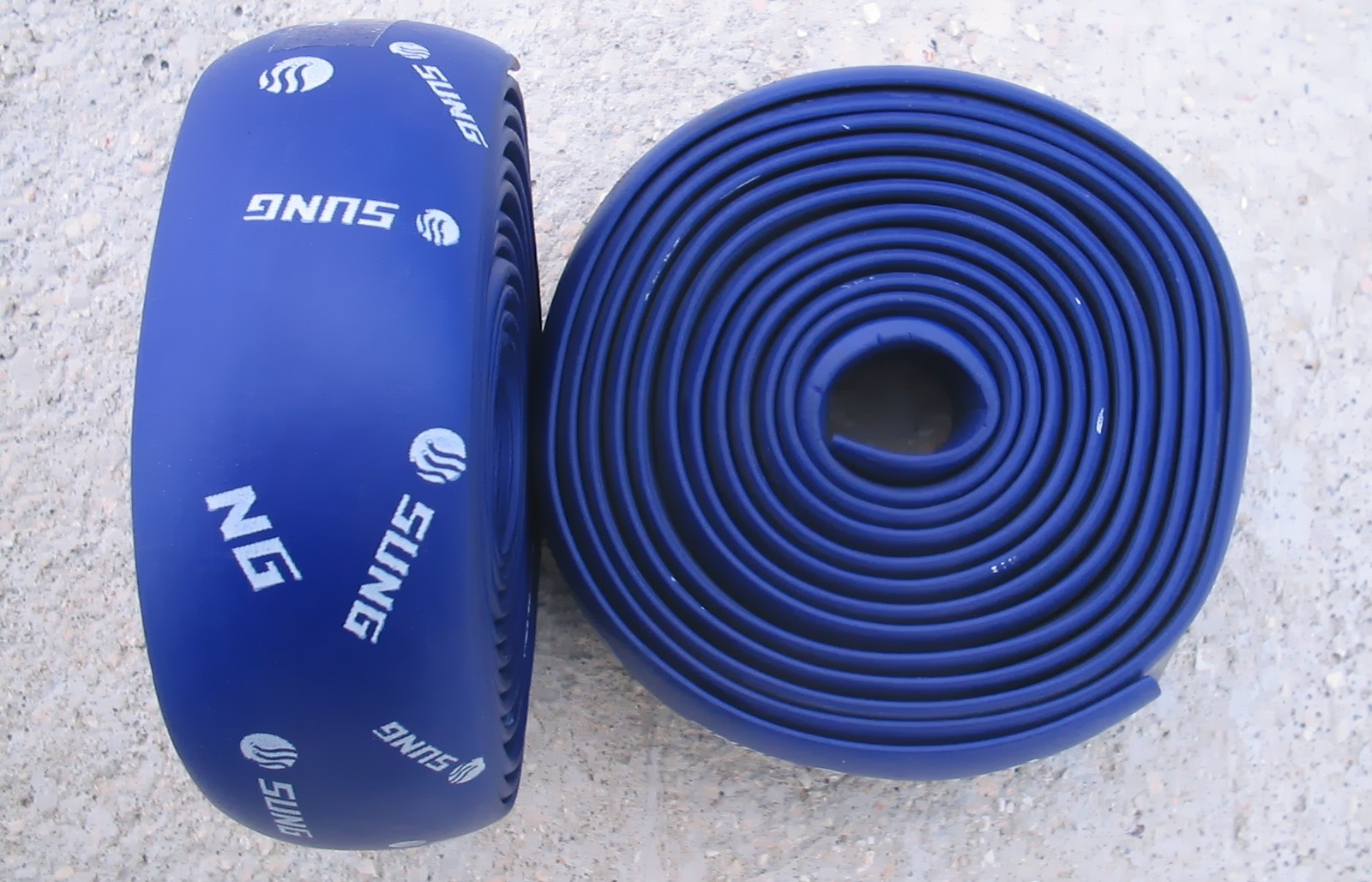 Handlebar tape for road bike / running